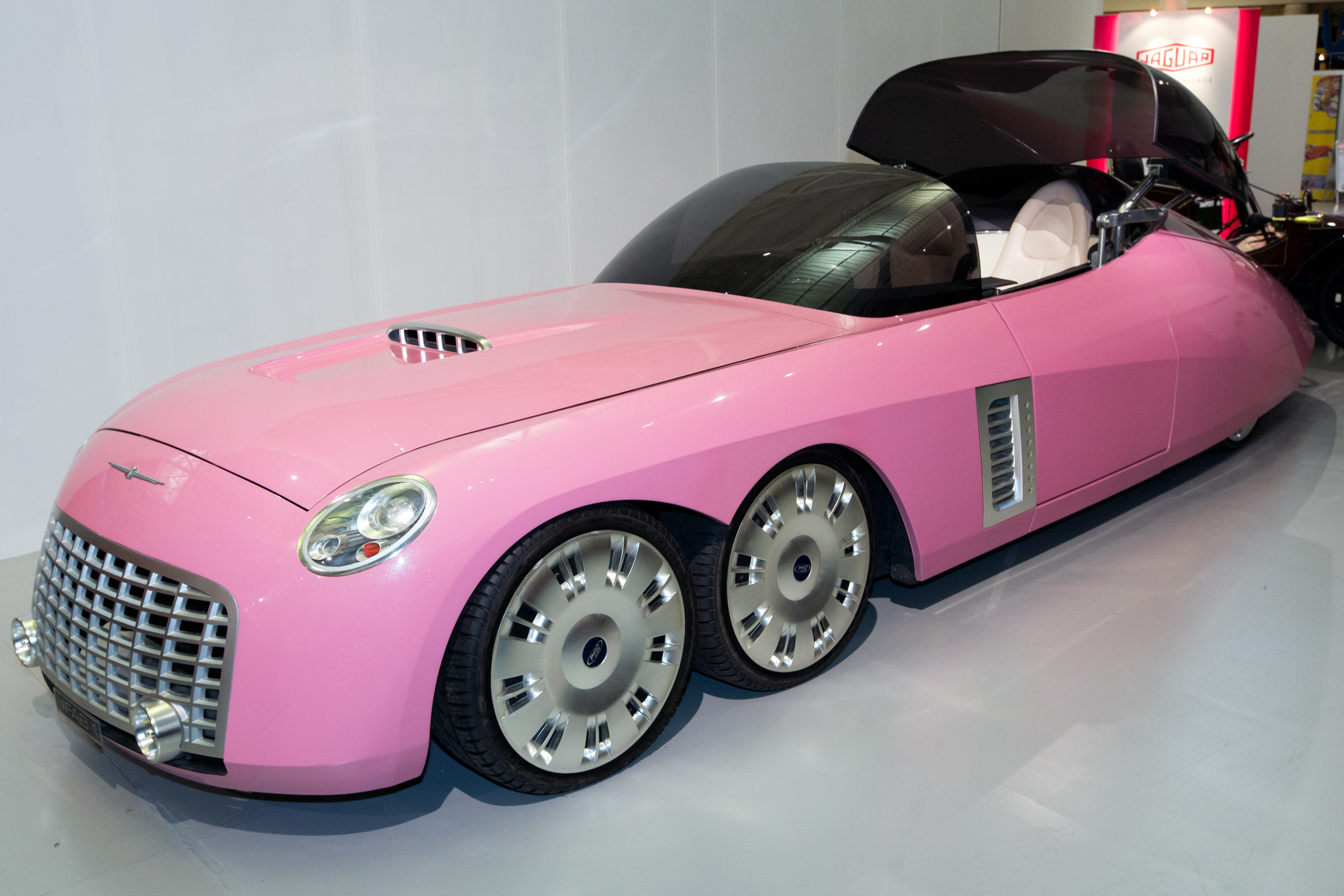 FAB 1 from 2004 film "Thunderbirds"